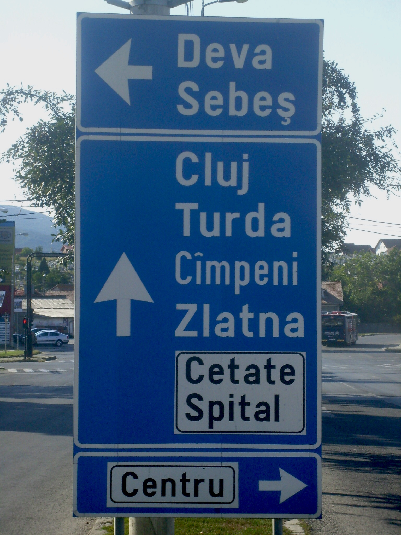 Traffic sign in Alba Iulia.